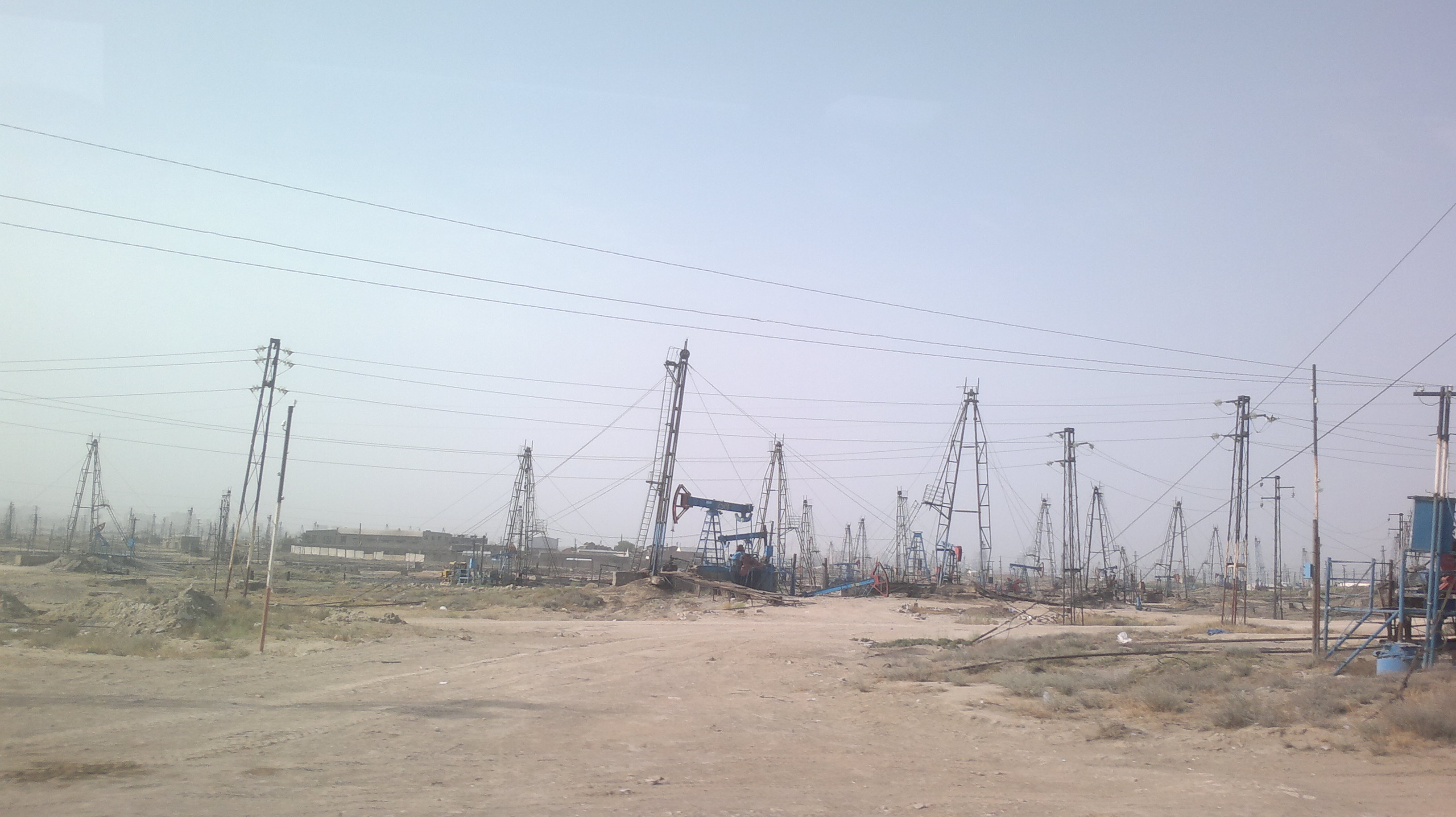 Oil wells in Balakhani